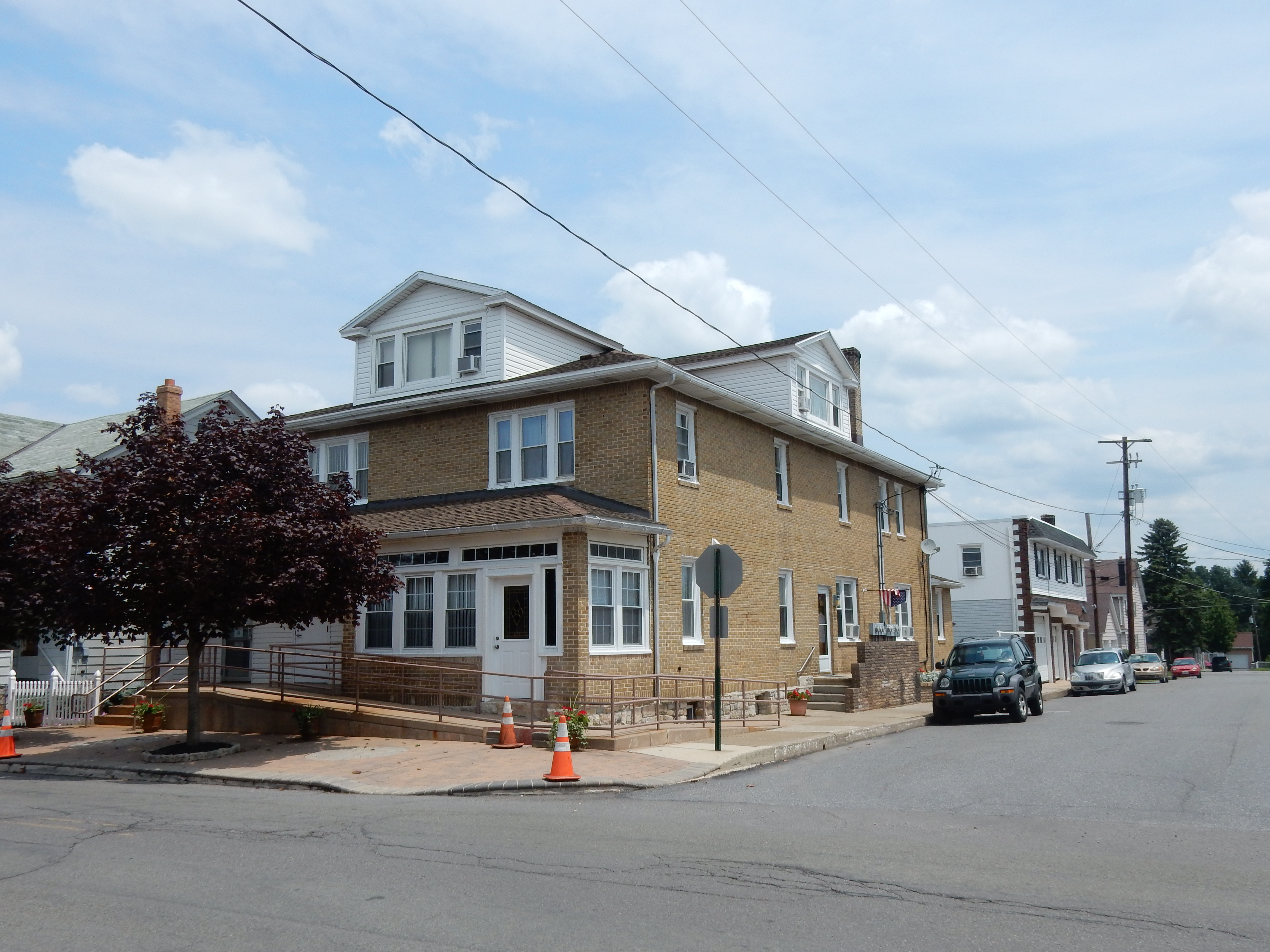 Post Office, 21 4th St, Kelayres, Kline Township, Schuylkill County, PA. Corner of Center St.